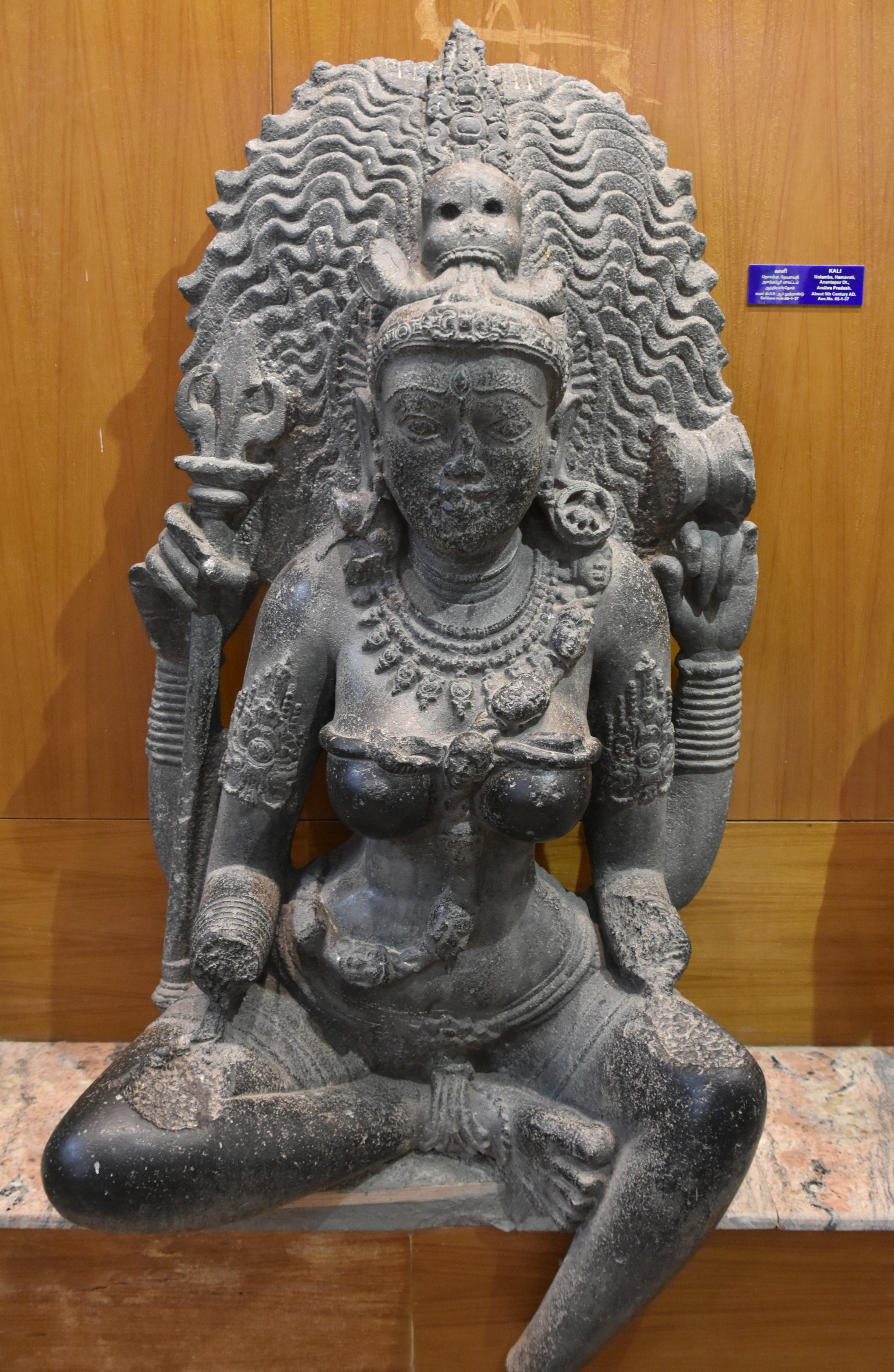 Kali is the ferocious form of Durga goddess in Hinduism